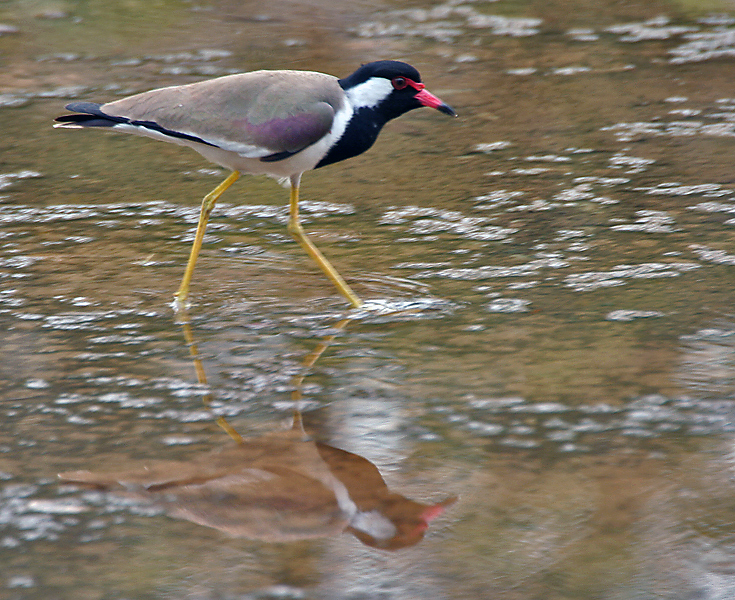 Red-wattled Lapwing Vanellus indicus at Sultanpur National Park in Gurgaon District of Haryana, India.